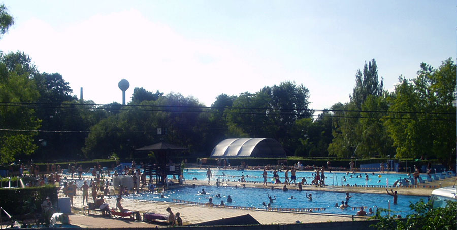 Thermal spa Štrand in Nové Zámky, Slovakia.